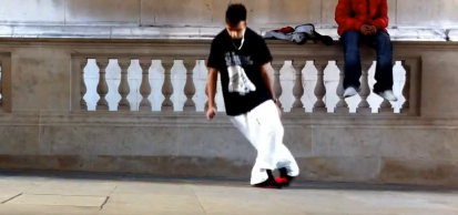 Photo shows myself performing the C-Walk (Also known as Crip/Clown Walk) in central London. The performer clearly illustrates the style associated with street dancing, notably the baggy clothes.